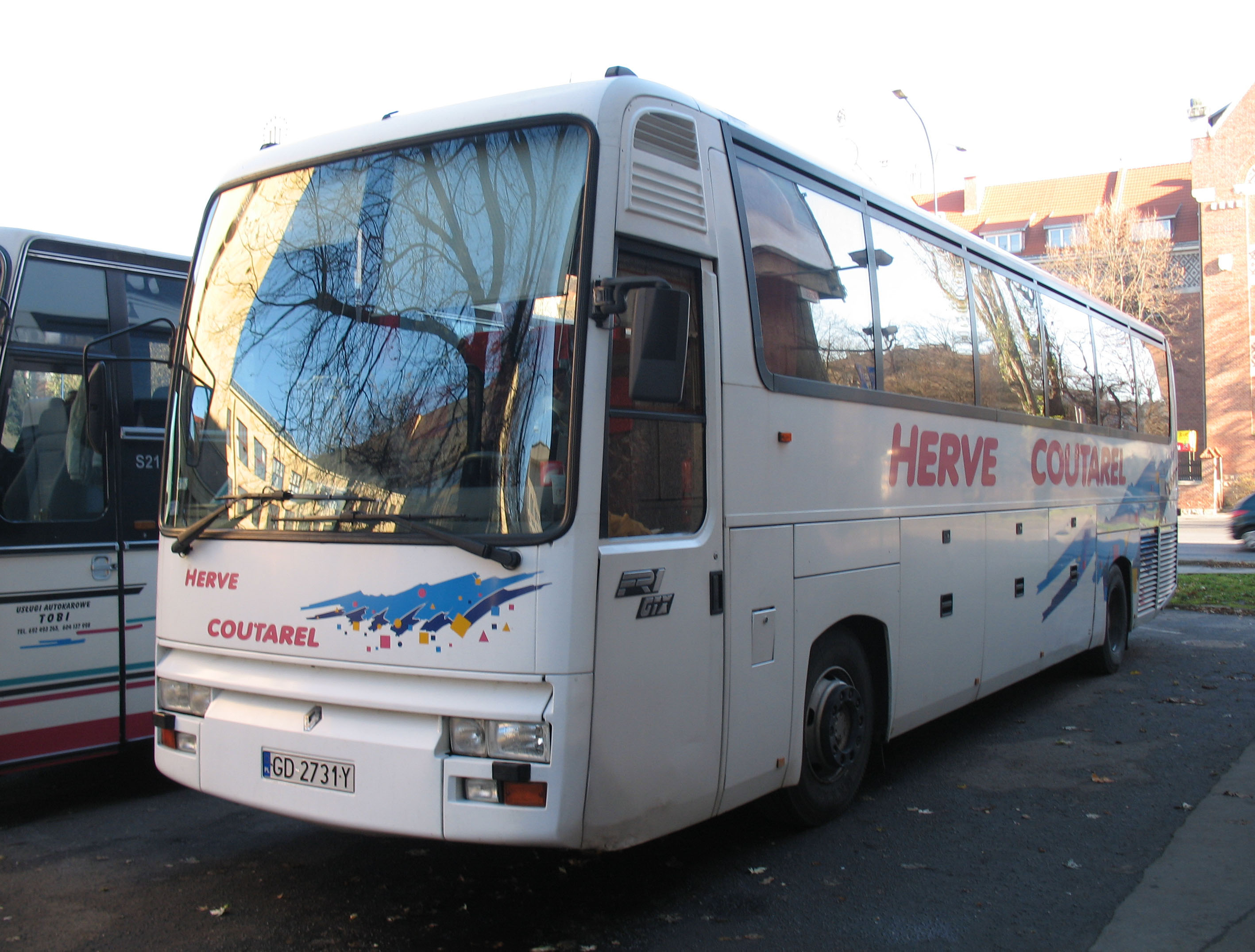 Renault FR1 GTX bus in Kraków, Poland. Operator from Gdańsk, Poland.